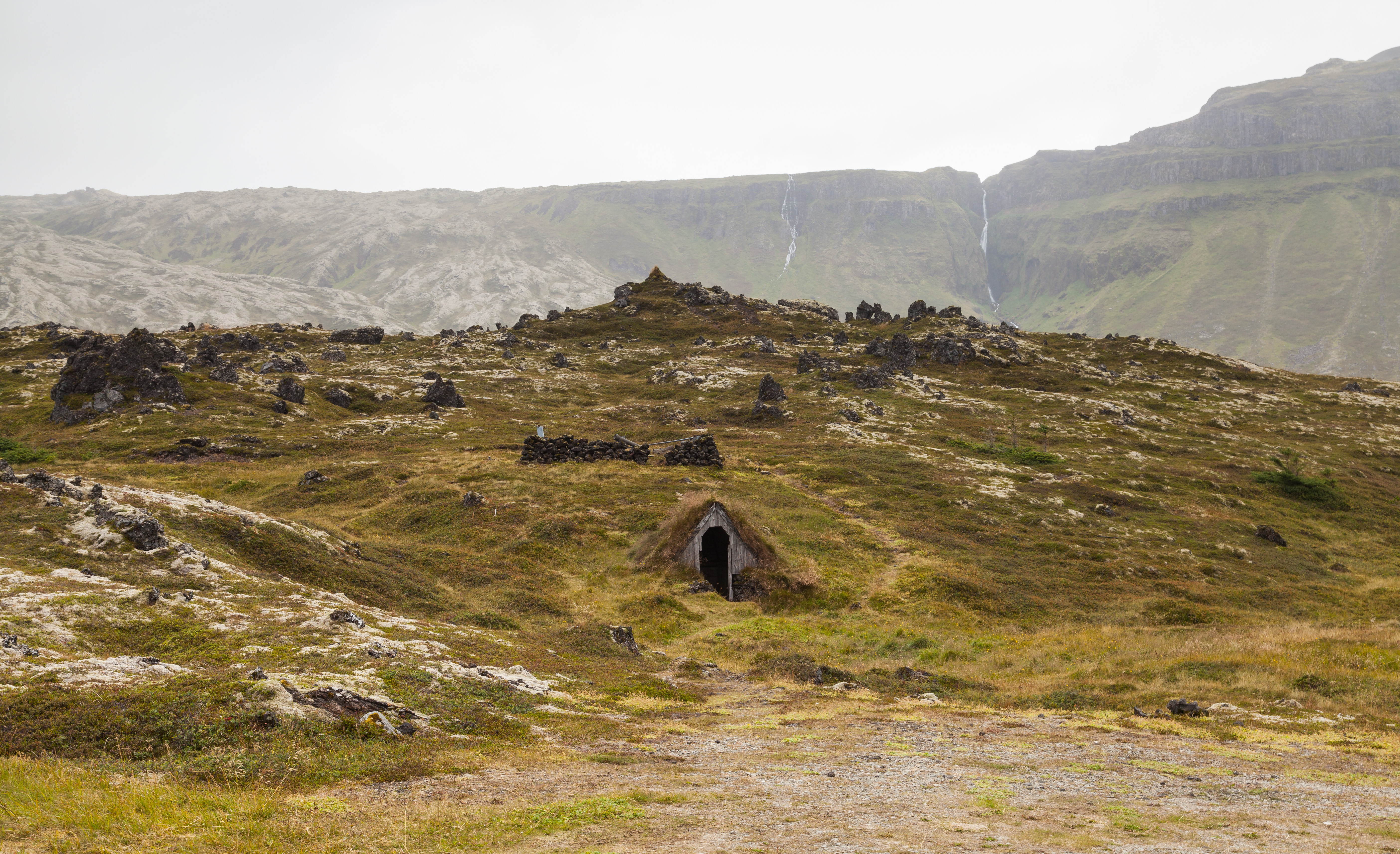 Turf house in the region of Búðahraun, Vesturland, Iceland